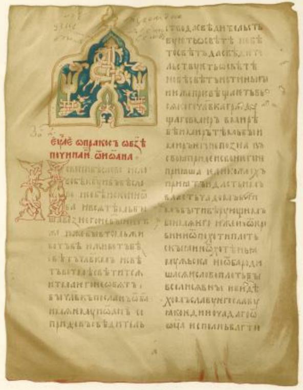 First page of the Mstizh Gospel, 14th century.